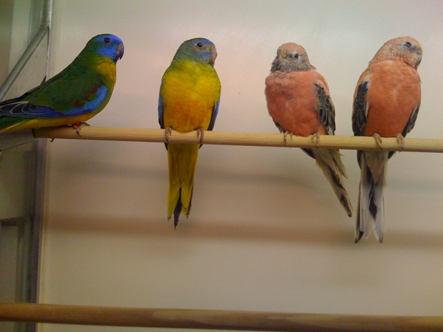 Two Turquoise Parrots (also known as the Chestnut-shouldered parakeet) on the left, and two Bourke's Parrots on the right. Photographed in the same cage a pet shop.